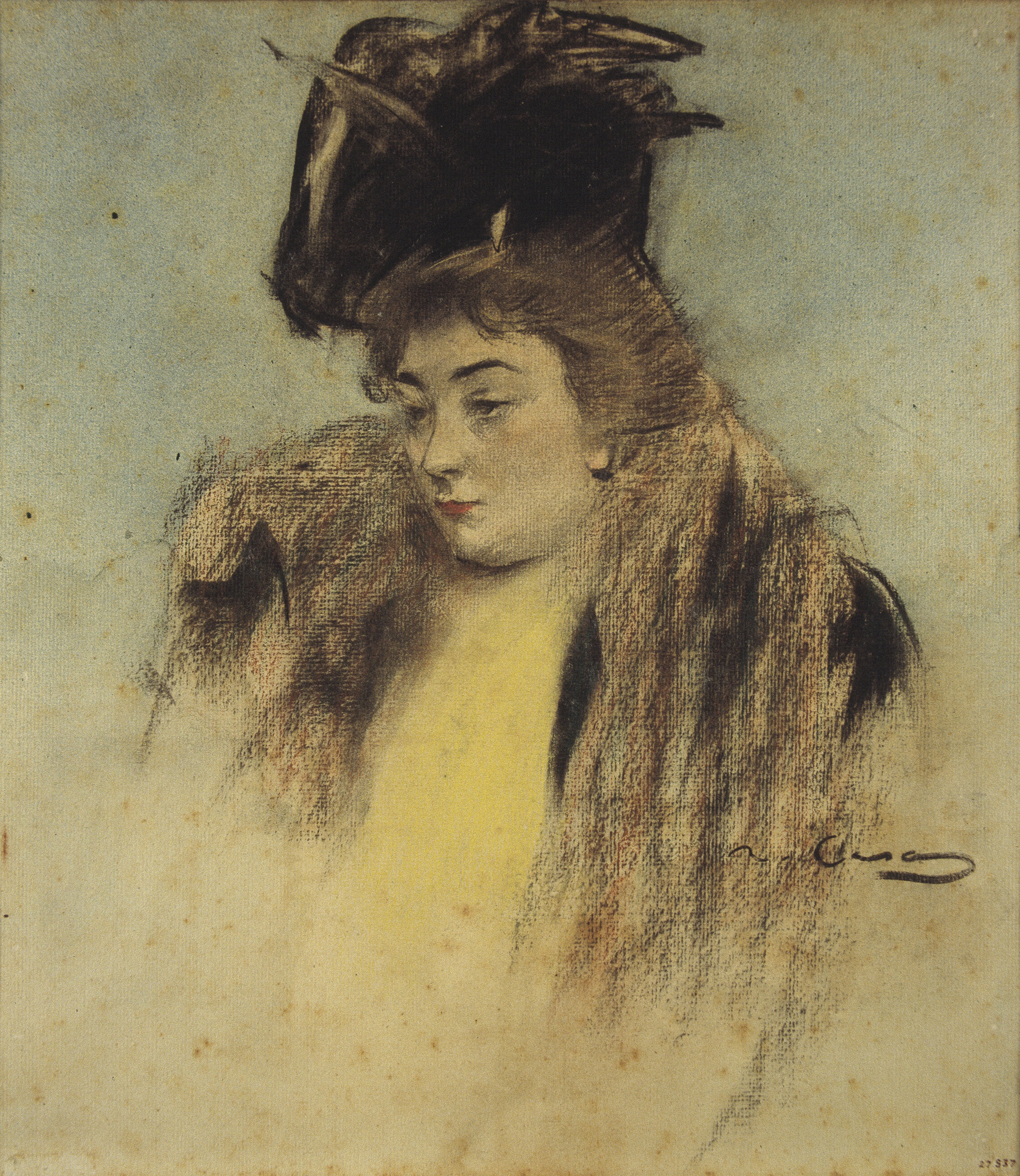 Portrait by Ramon Casas conserved at MNAC in Barcelona. Imagen 035